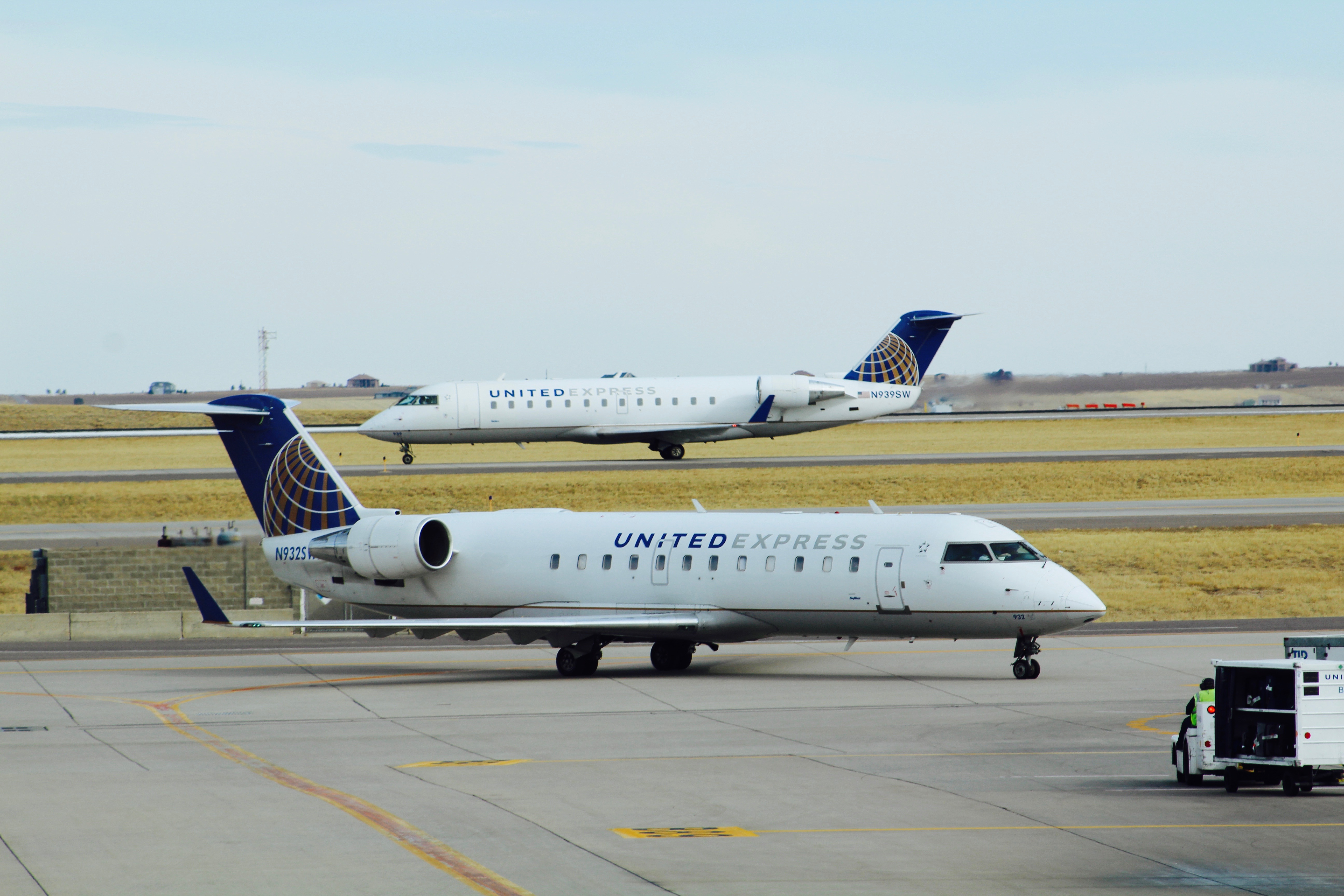 United Express CRJ 200's at Denver International Airport.